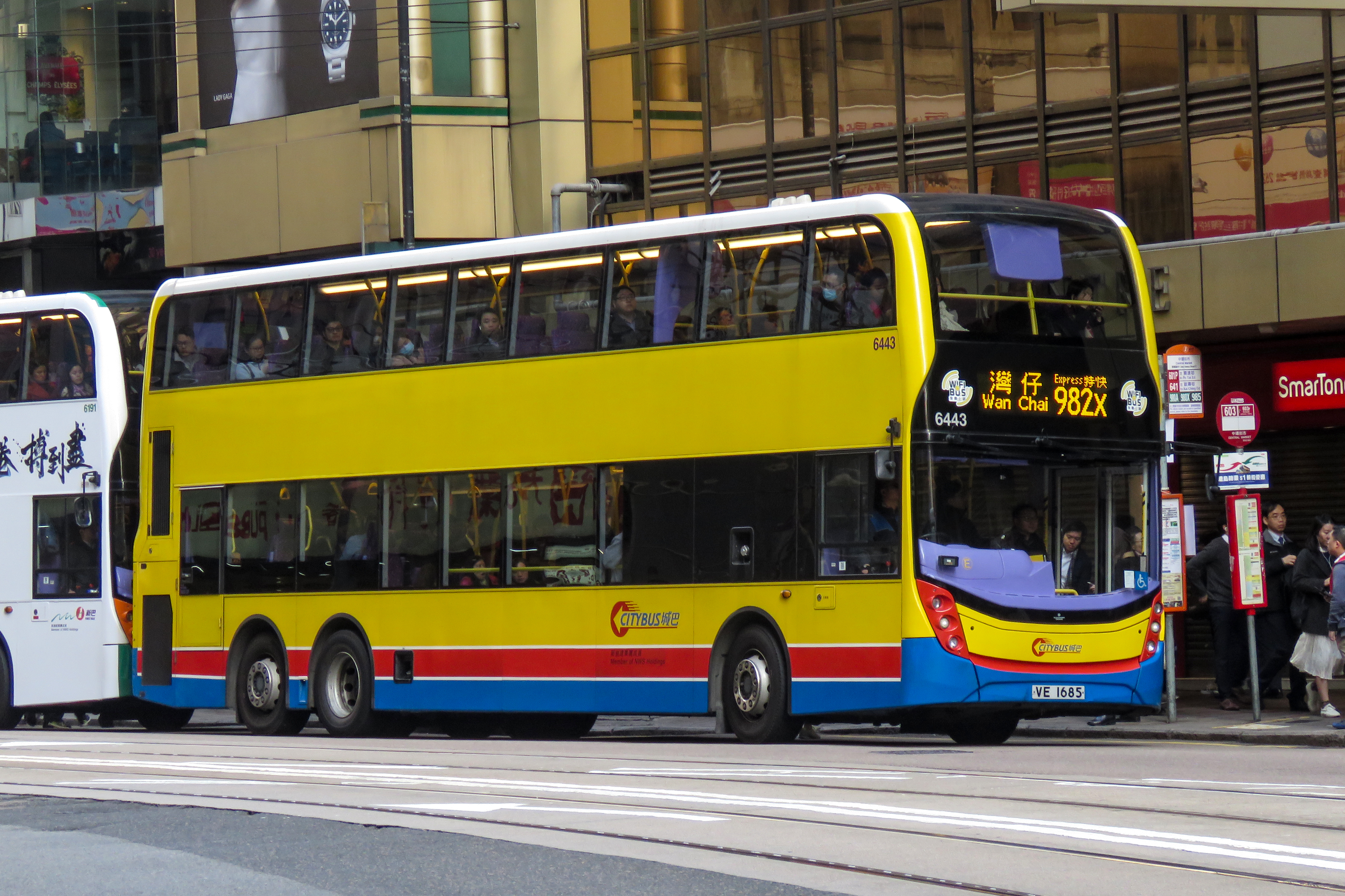 Nice clean 12.8m MMC... obviously this 982 is not from Tujing village!